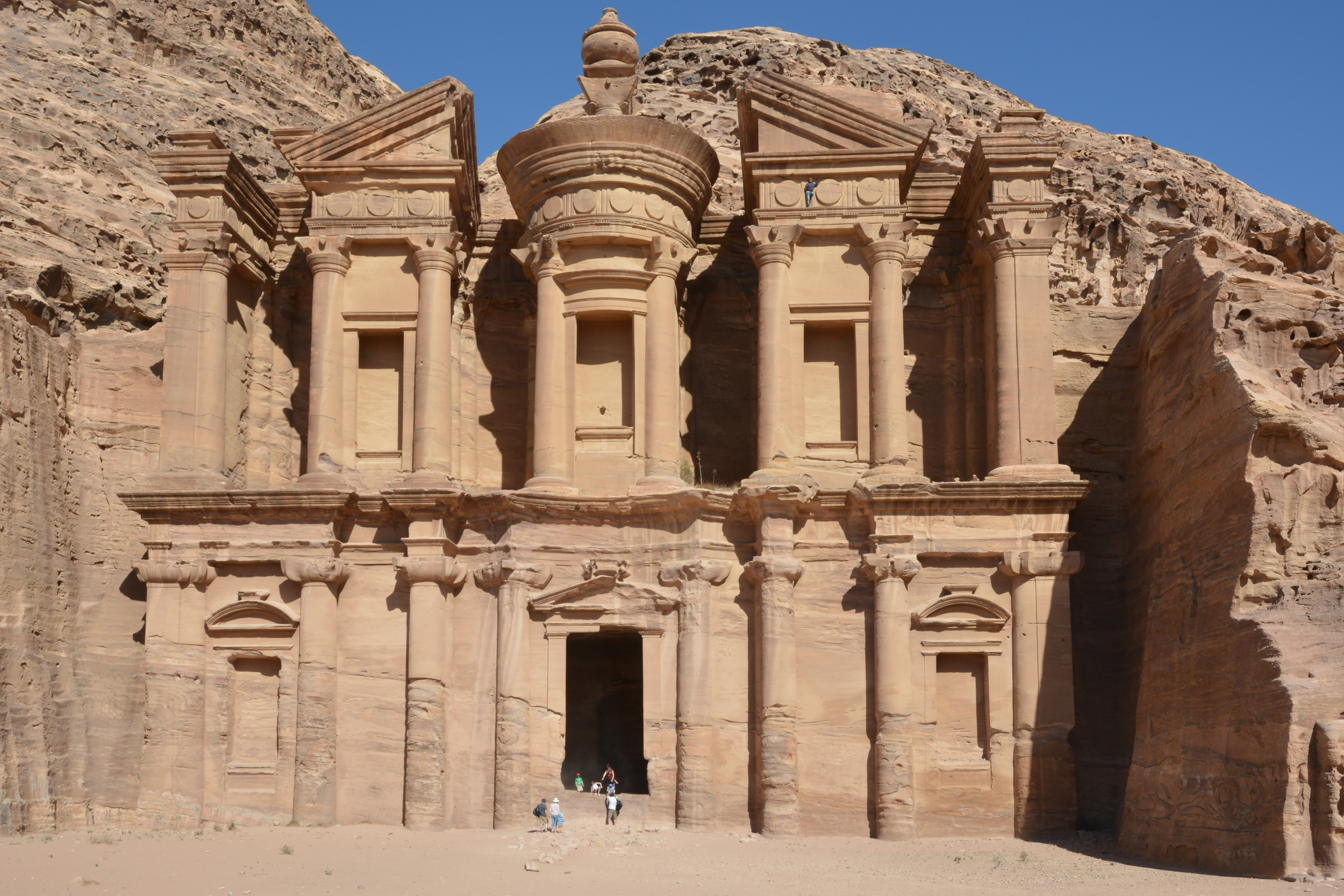 Al Deir, "The Monastery", a monument closely resembling Al Khazneh though less ornate. It can be accessed climbing a long flight of stairs carved in the mountain above Petra. A man can be seen at the top of the facade, slightly on the right of the picture.